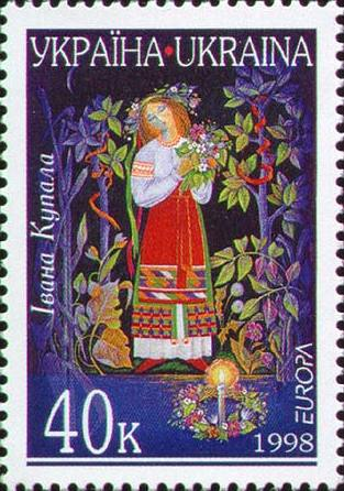 Stamp of Ukraine: Kupala Night.